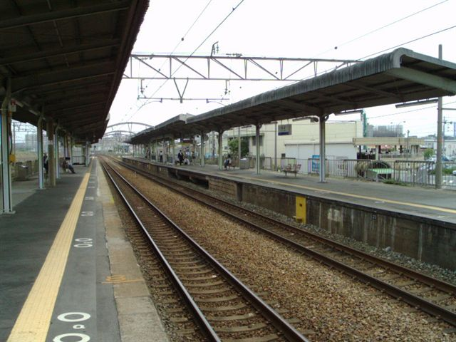 Platform of Kishibe Station(Photograpy:Nozomikobe/4 Jun,2006)